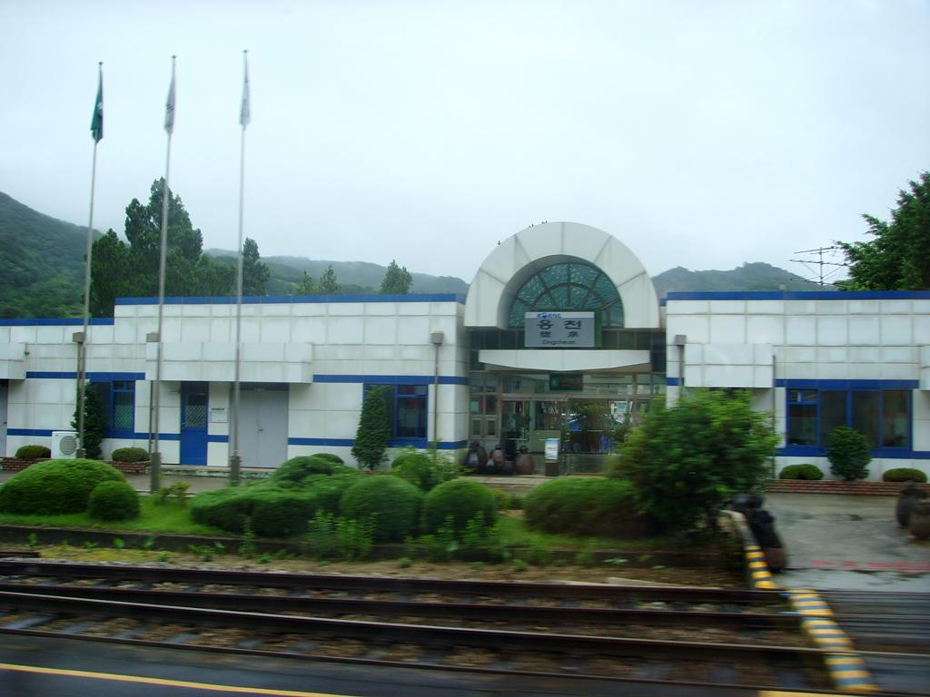 Jungang Line Ongcheon Station